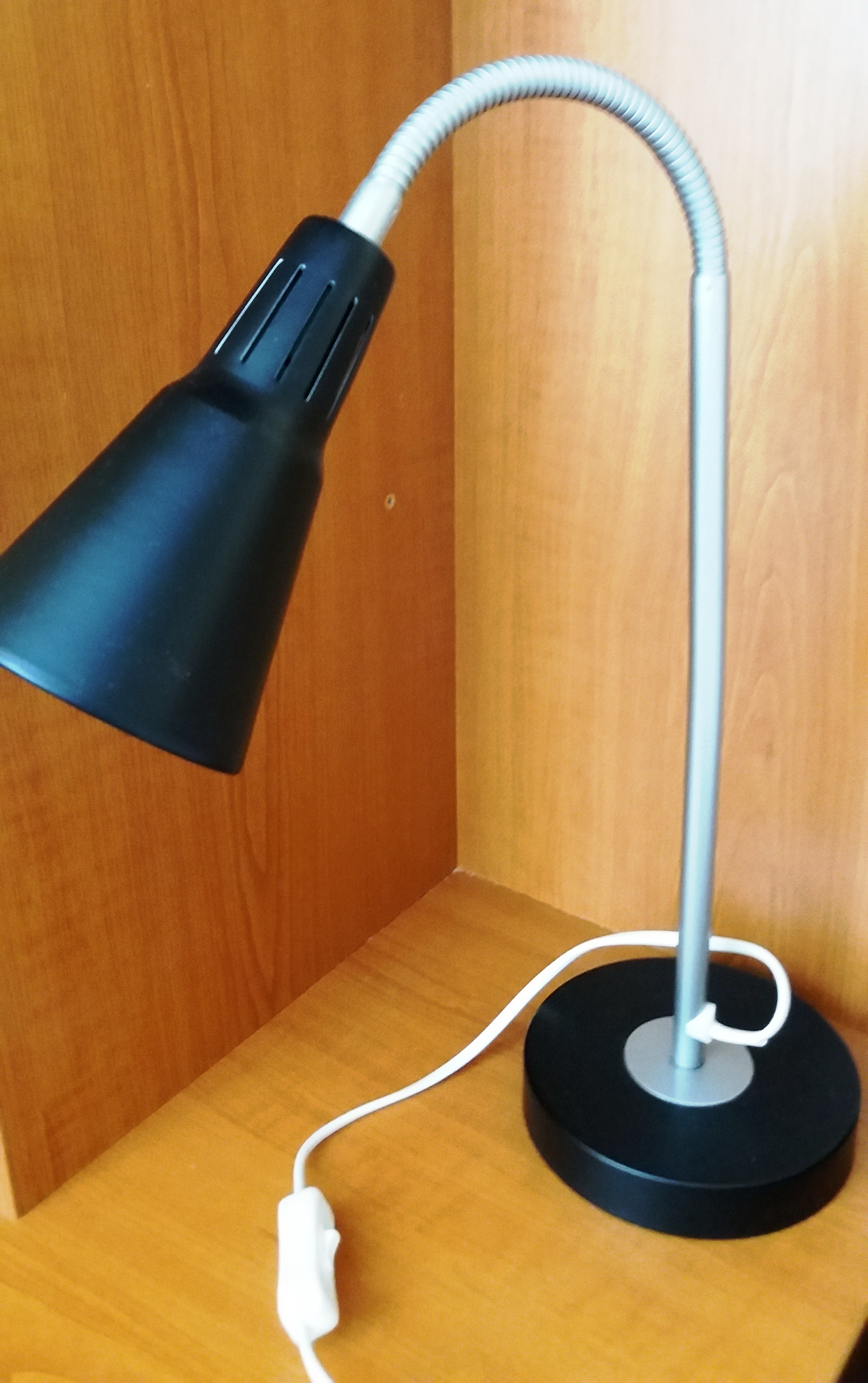 Bedside lamp, for reading